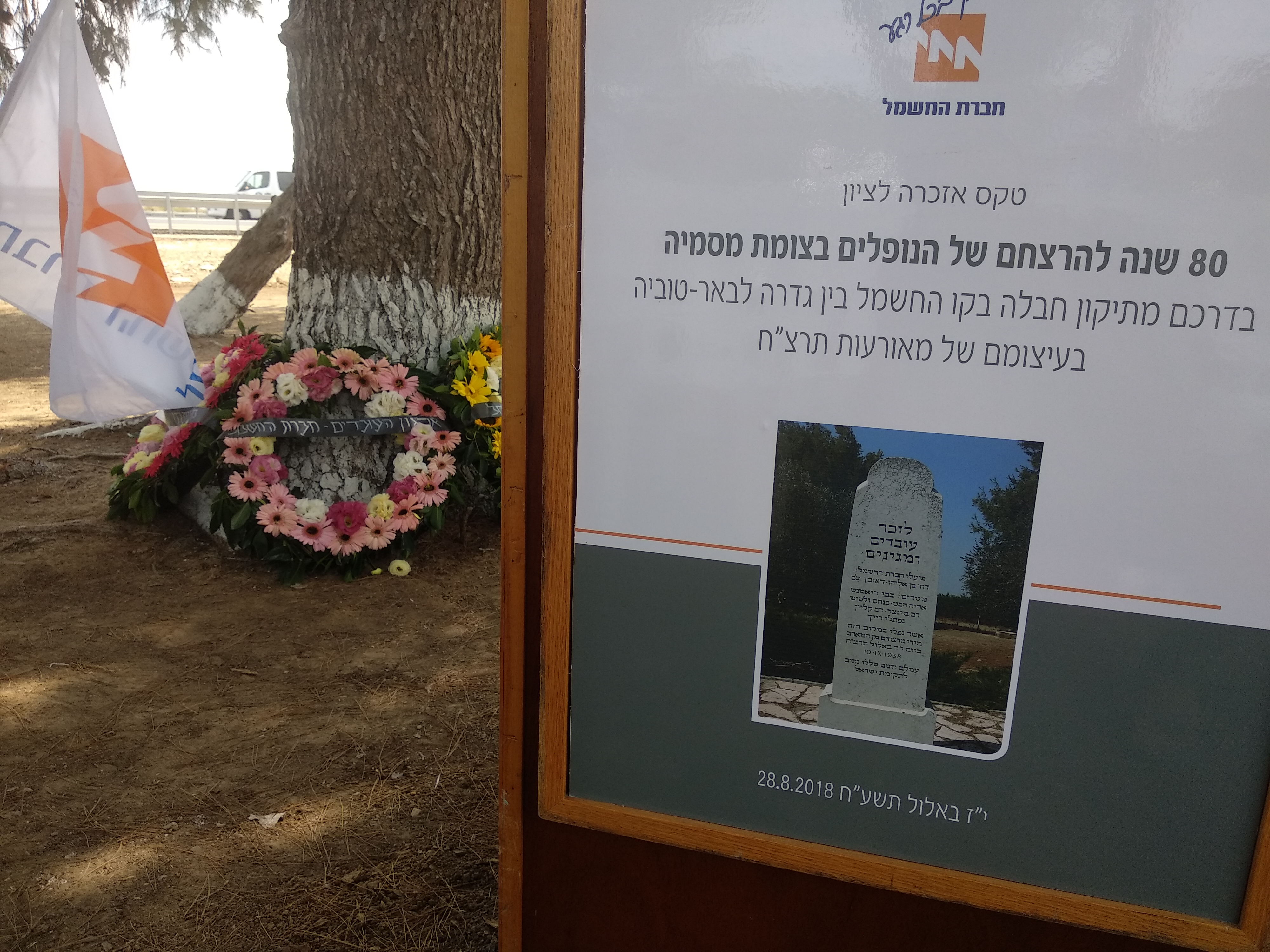 A cermony near the Monument In memorial of 2 electricity workers and 6 jewish policemen killed in Masmiyya Battle in September 1938 Аҧсшәа: טקס שארגנה חברת החשמל במלאת 80 שנים לקרב מסמיה בו נהרגו שניים מעובדיה לצד שישה נוטרים